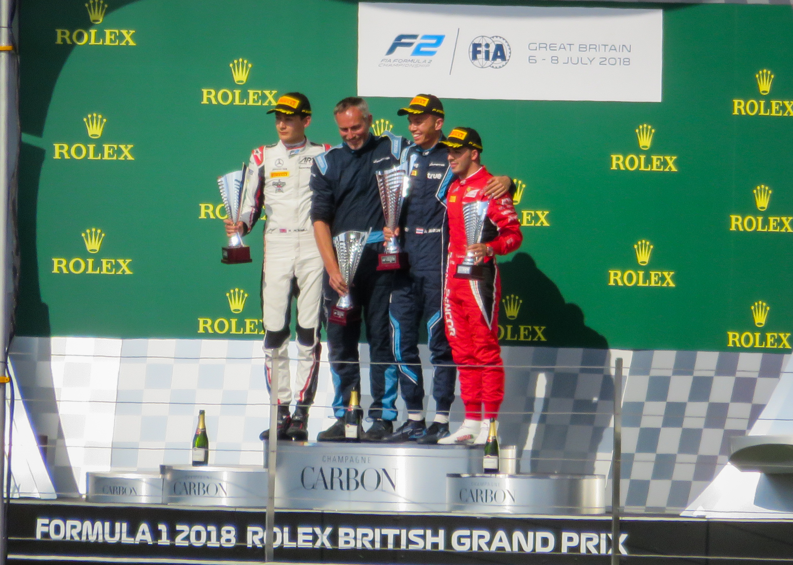 2018 FIA Formula 2 Championship, Silverstone Circuit.